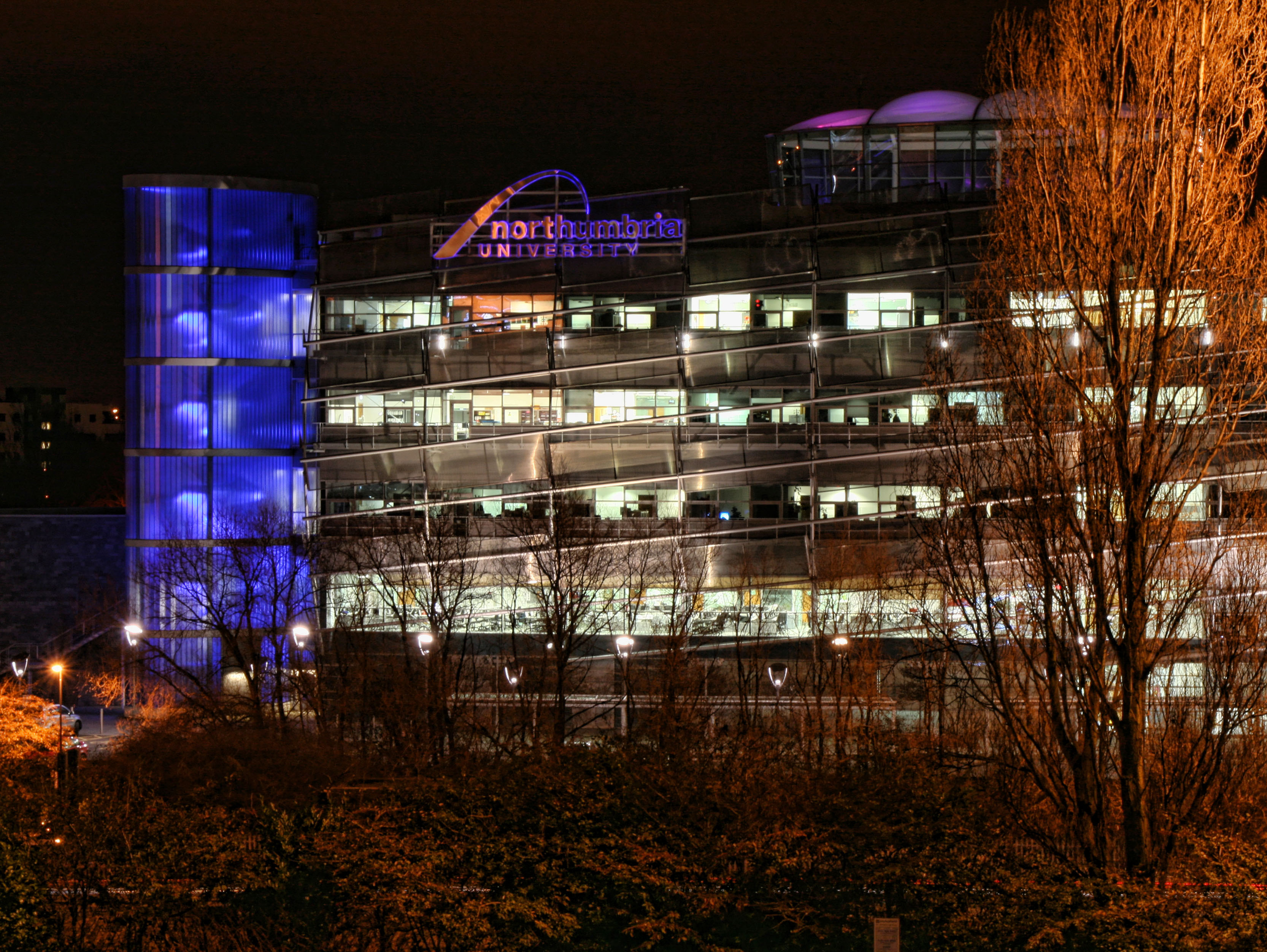 Northumbria University